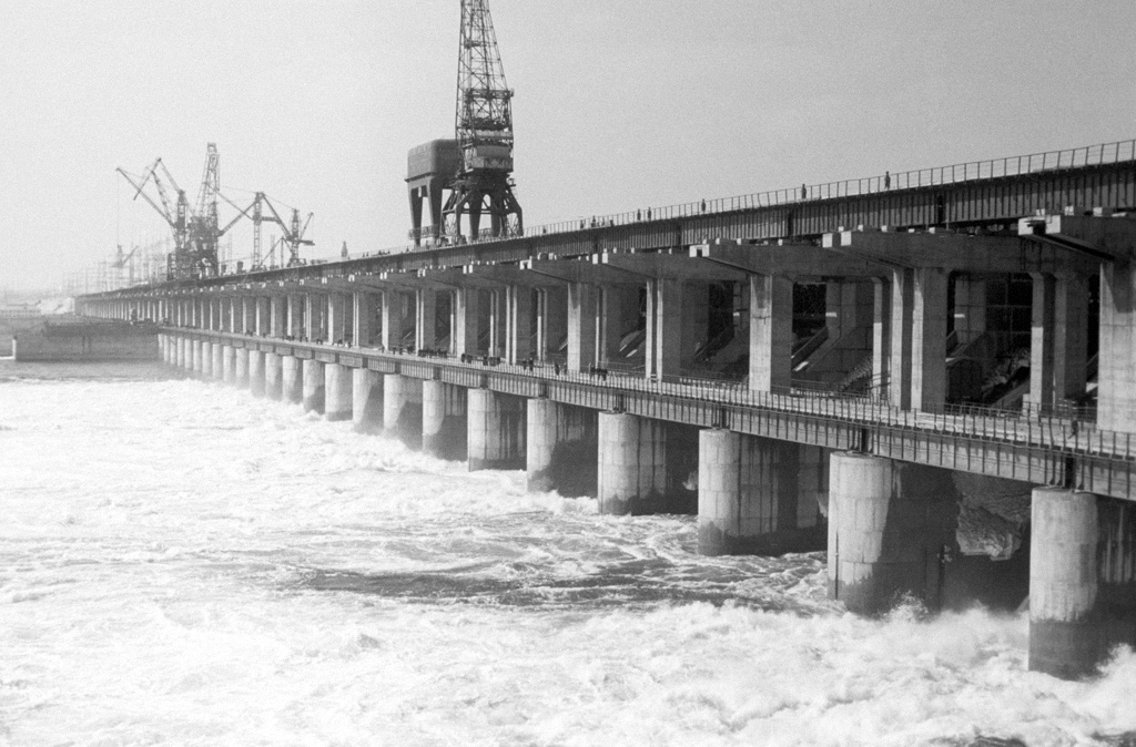 “Construction of Volzhskaya hydro power plant”. Construction of Volzhskaya hydro power plant.